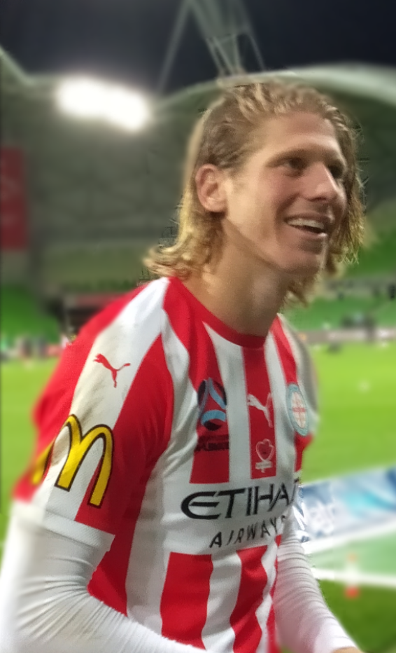 Harrison Delbridge with Melbourne City in 2019